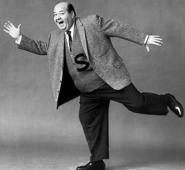 Publicity photo of Stubby Kaye, the host of the game show Shenanigans.